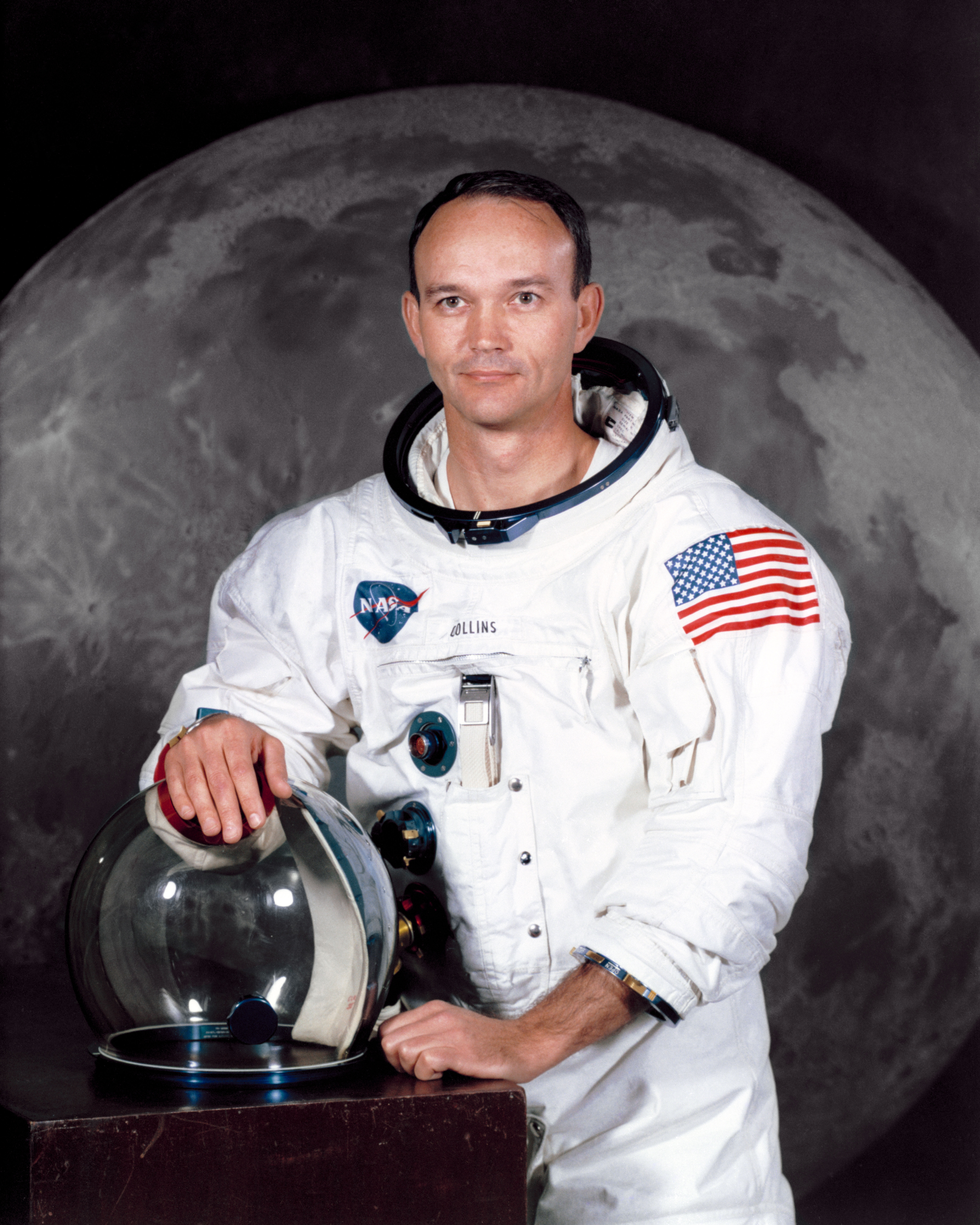 Portrait of Michael Collins in a spacesuit taken on April 16, 1969, three months before the launch of Apollo 11